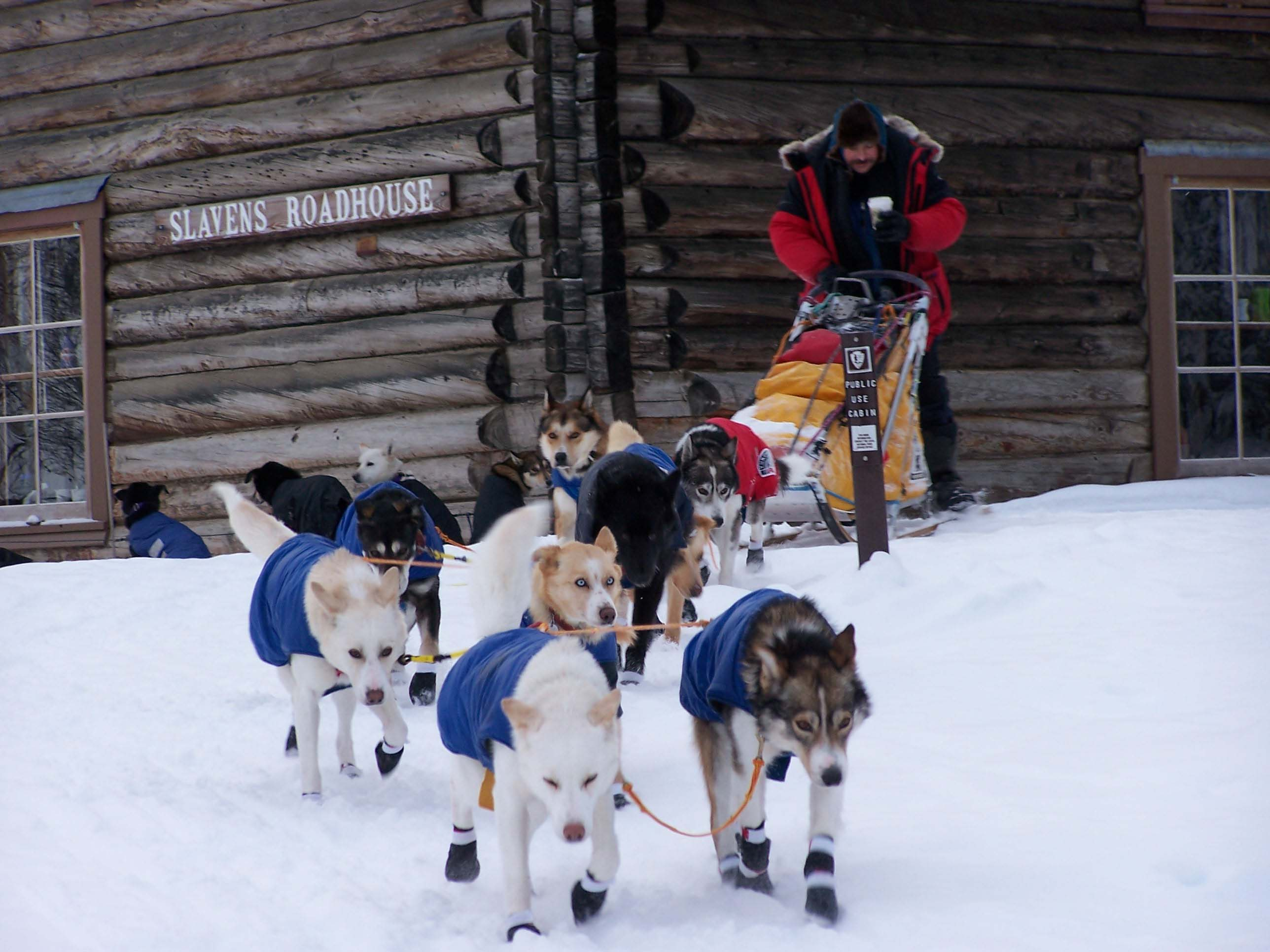 A musher departs Slaven's Roadhouse in the Yukon-Charley Rivers National Preserve during the 2005 Yukon Quest sled dog race.